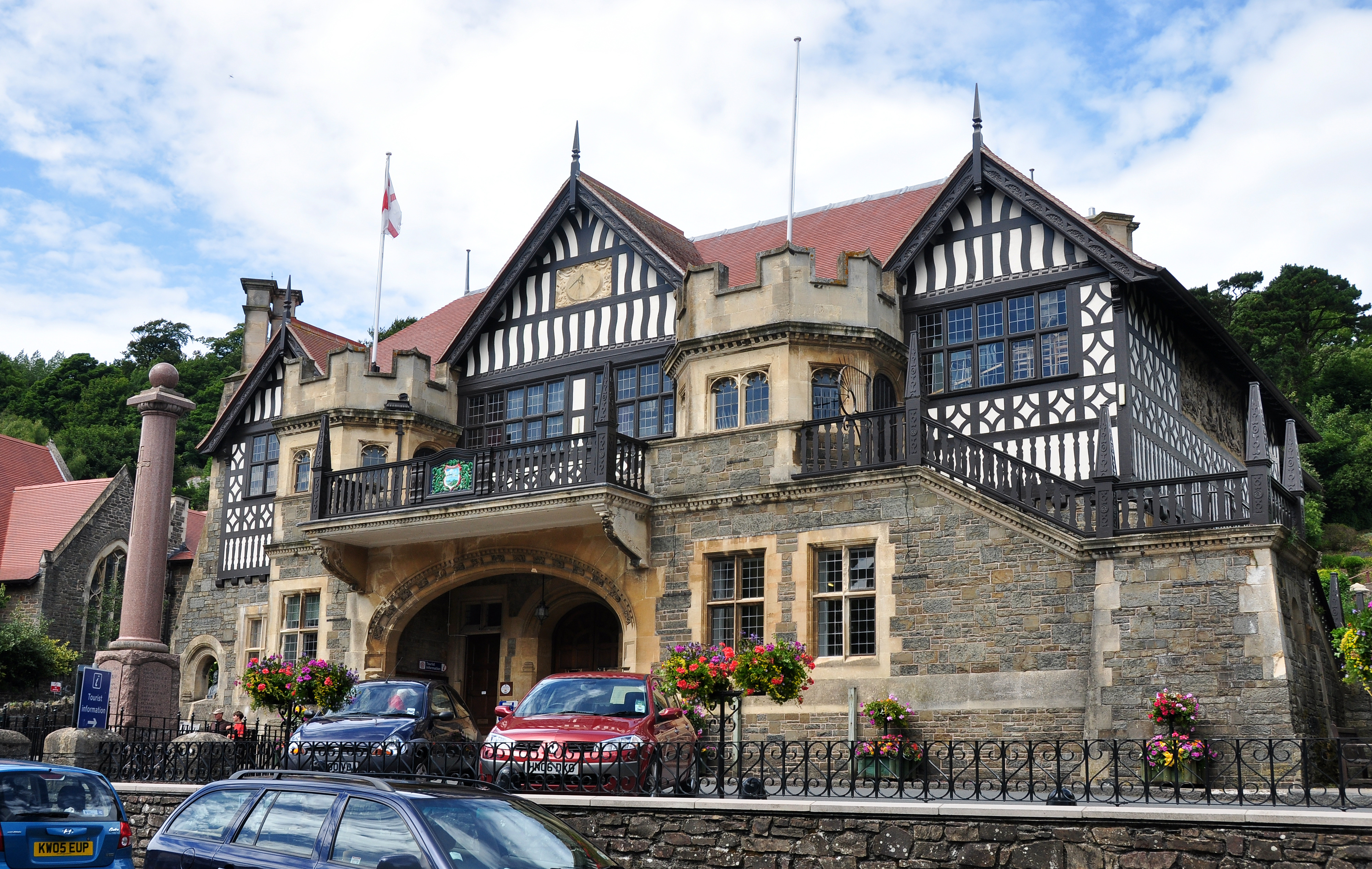 The town hall of Lynton in North Devon.